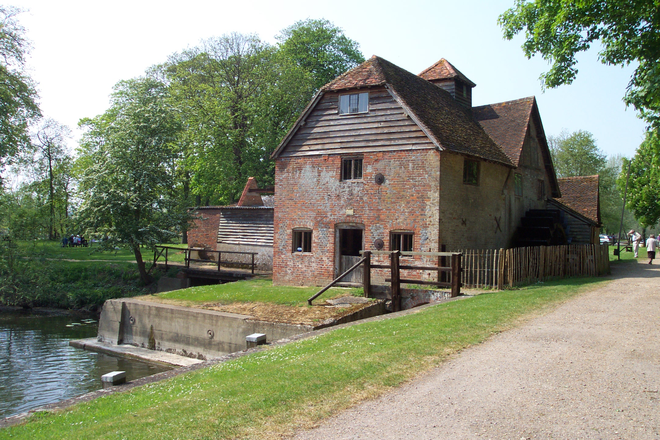 Mapledurham Watermill, Mapledurham, Oxfordshire, England. For more information, see Mapledurham Watermill.